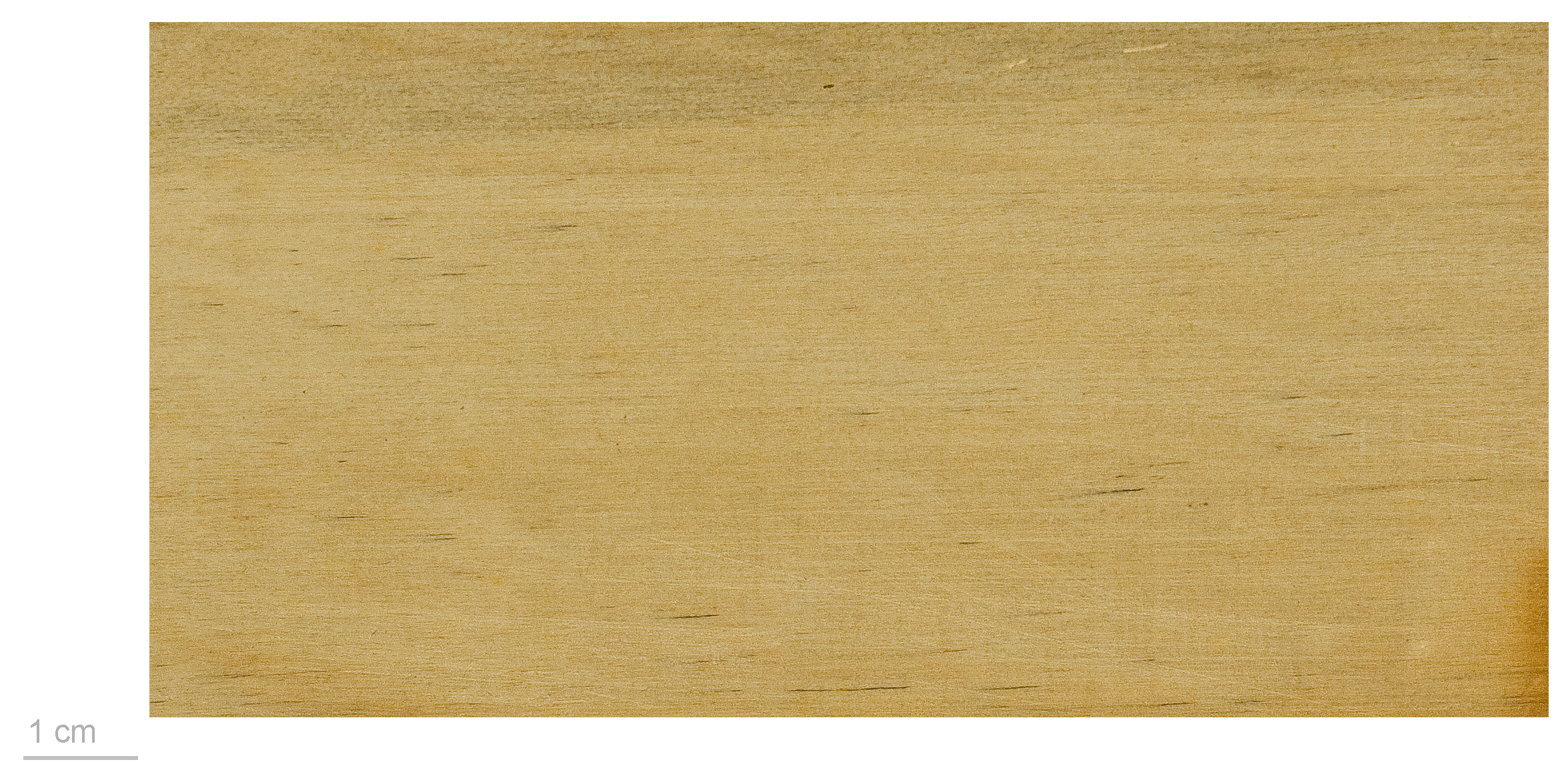 Schefflera gabriellae, wood